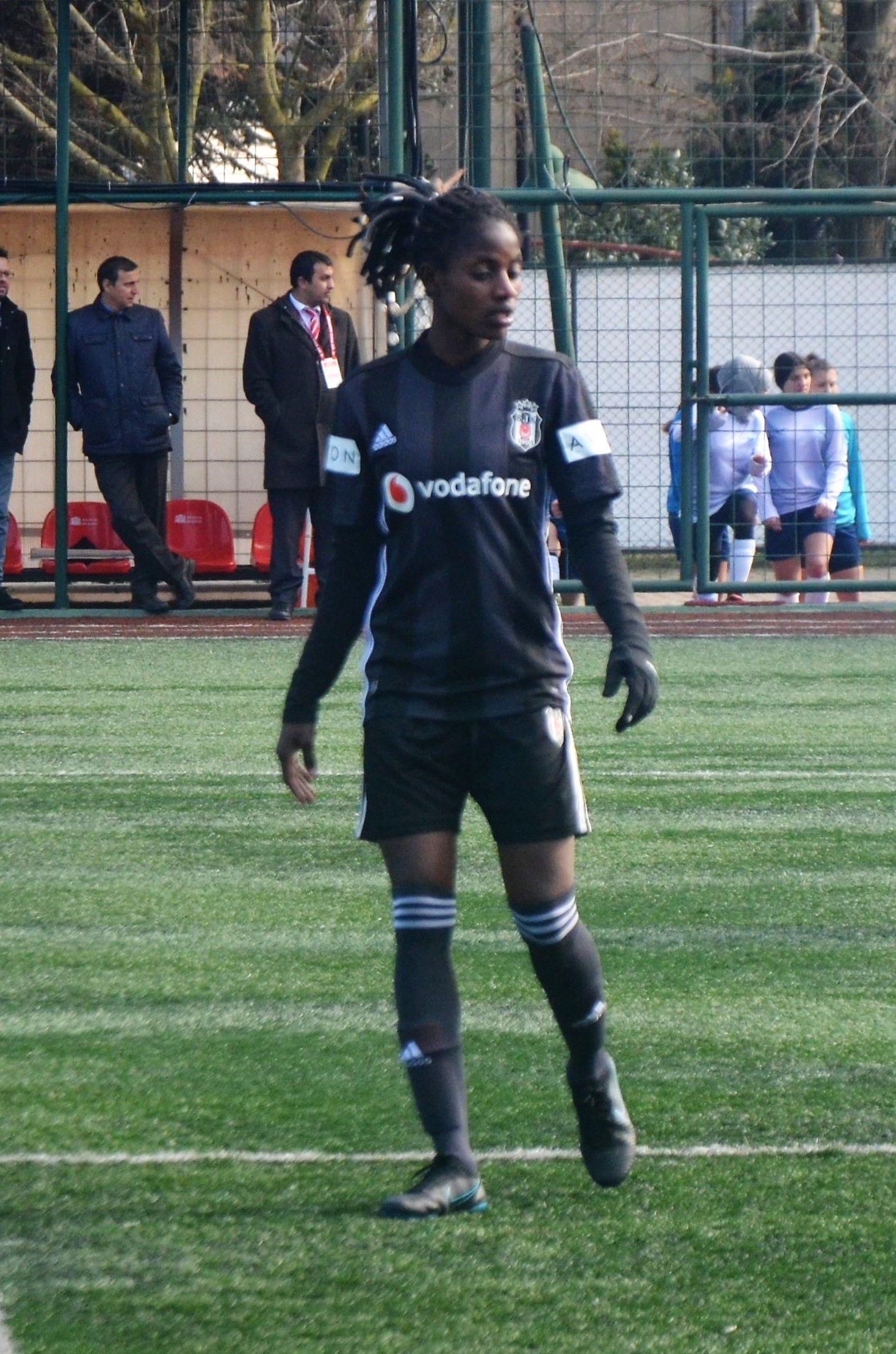 Aissata Traoré of Beşiktaş J.K. in the 2018-19 Turkish Women's First Lieague match.